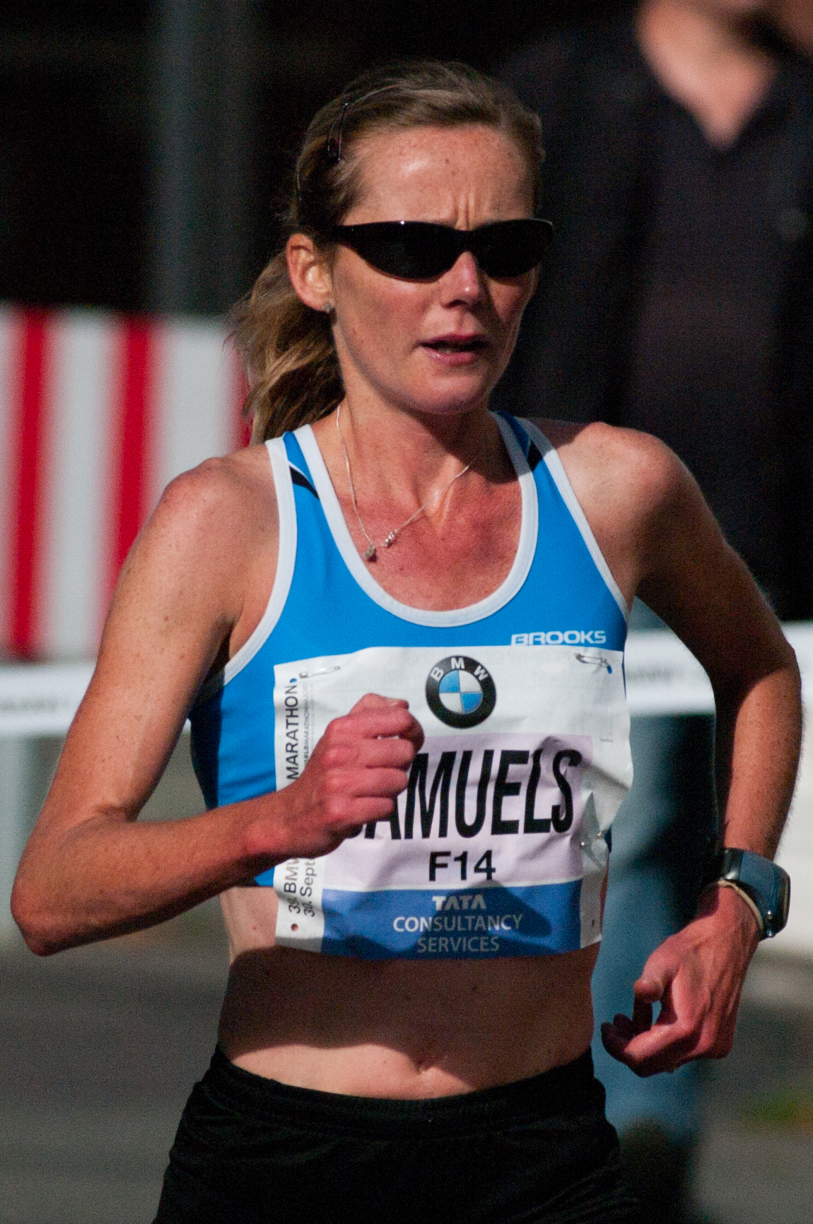 British runner Sonia Samuels at the 2012 Berlin Marathon. Here at Bülowstraße, between Kilometers 36 and 37.